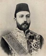 Photograph of Tawfiq Pasha (1852-1892), Khedive of Egypt.